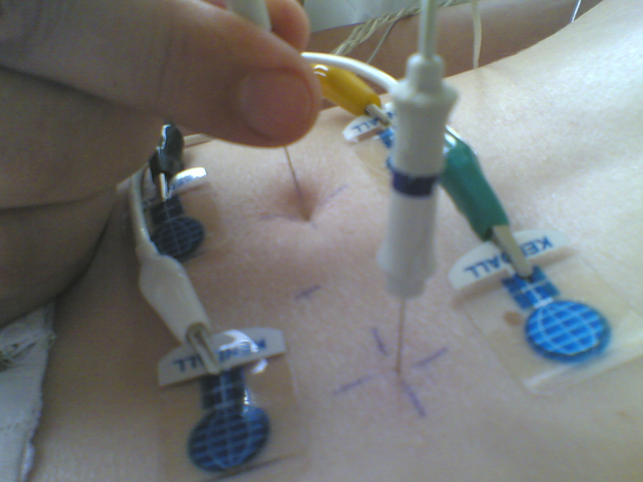 The needle EMG of paravertebral muscles